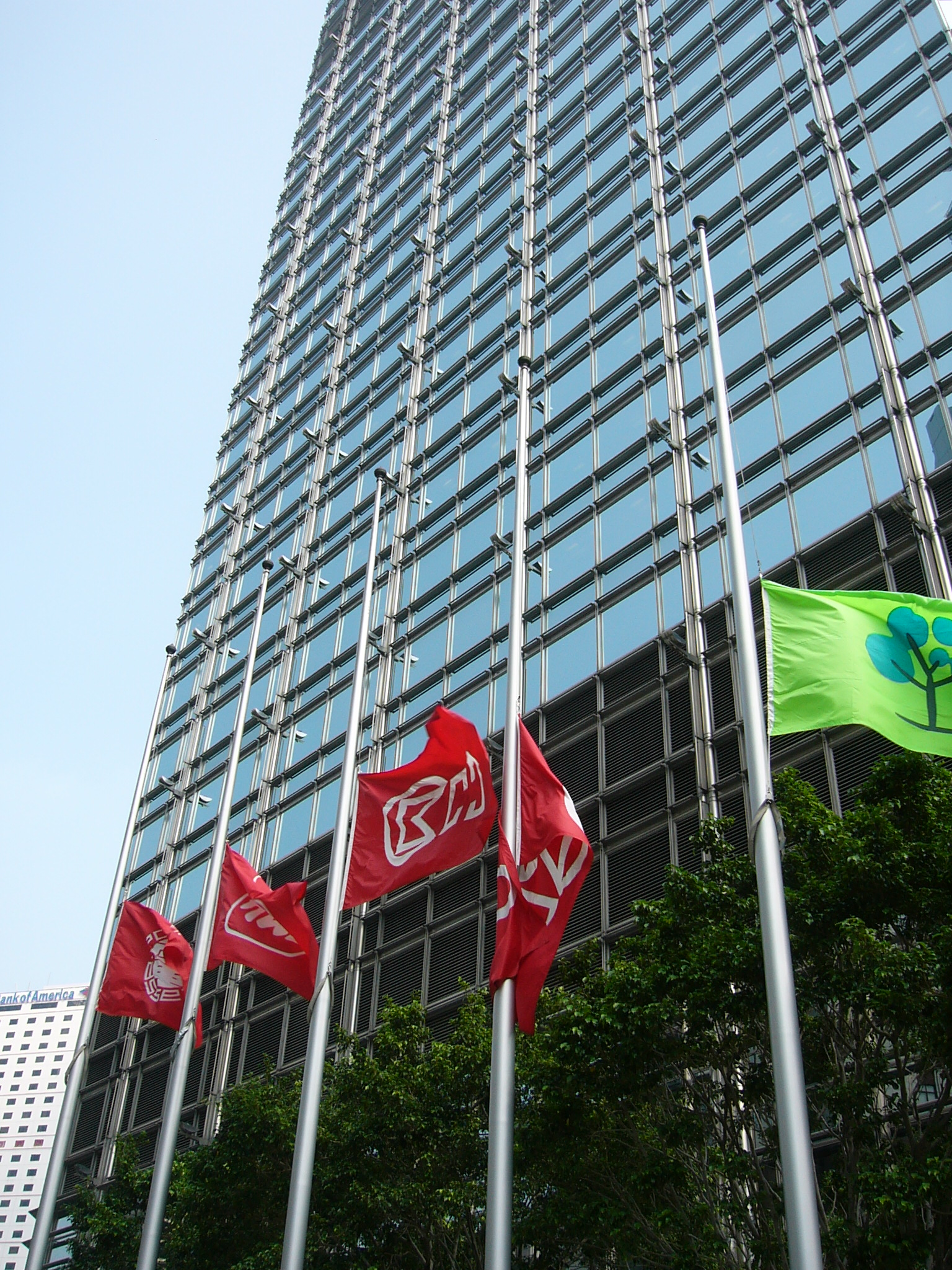 Cheung Kong Center on 2012-10-04, flags at half-mast